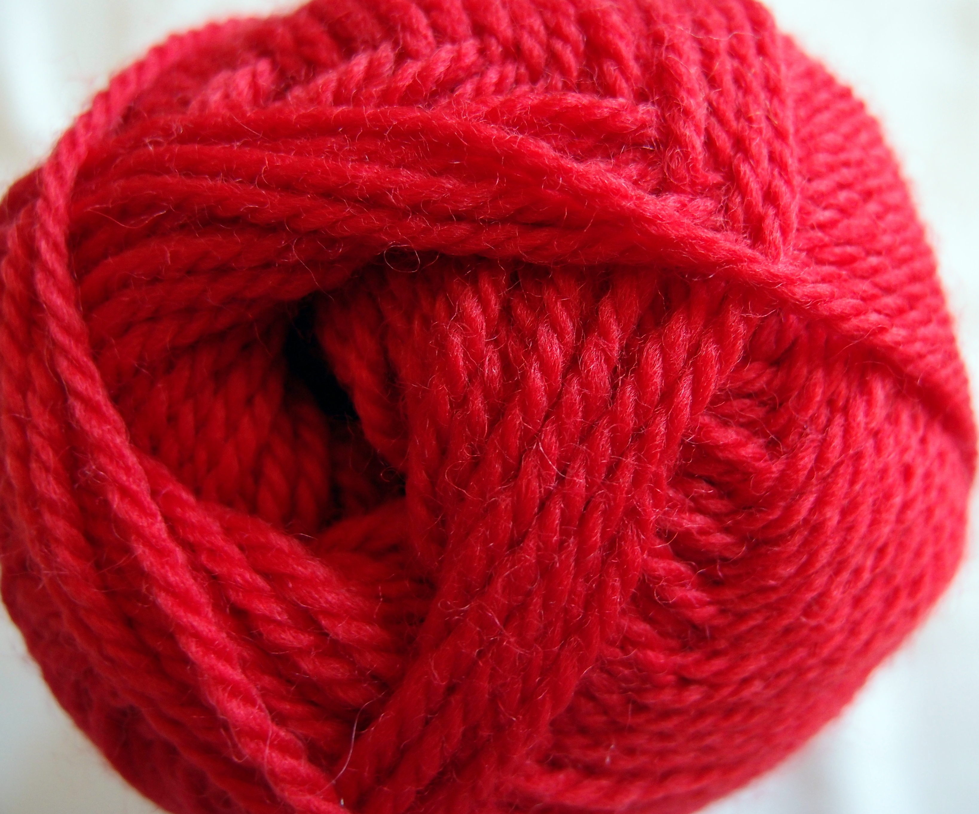 Close up of 100% worsted wool. Plied structure can be seen.